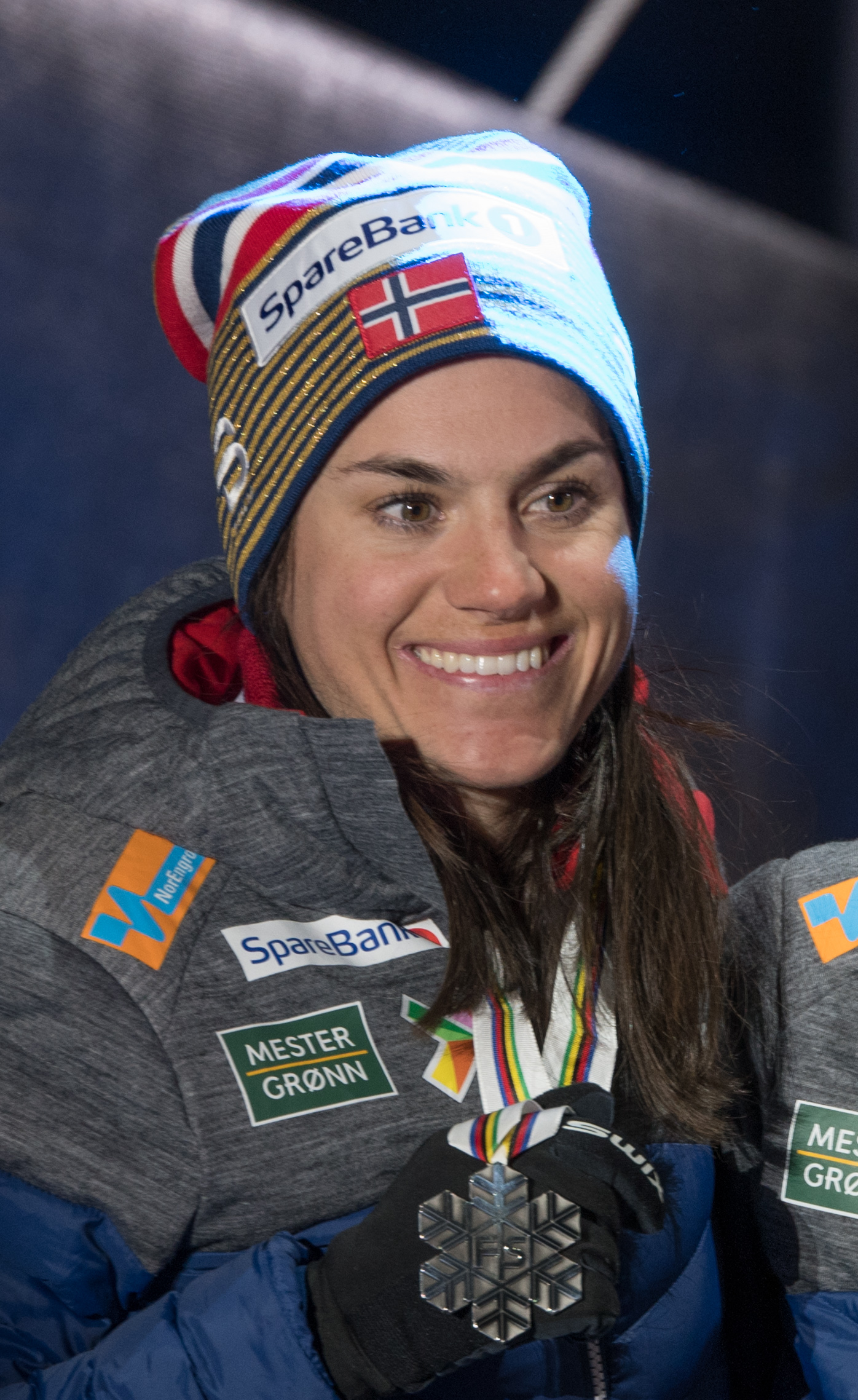 FIS Nordic Wolrd Ski Championships Seefeld 2019 - Medal Ceremony at the Medal Plaza. Picture shows Heidi Weng (NOR)